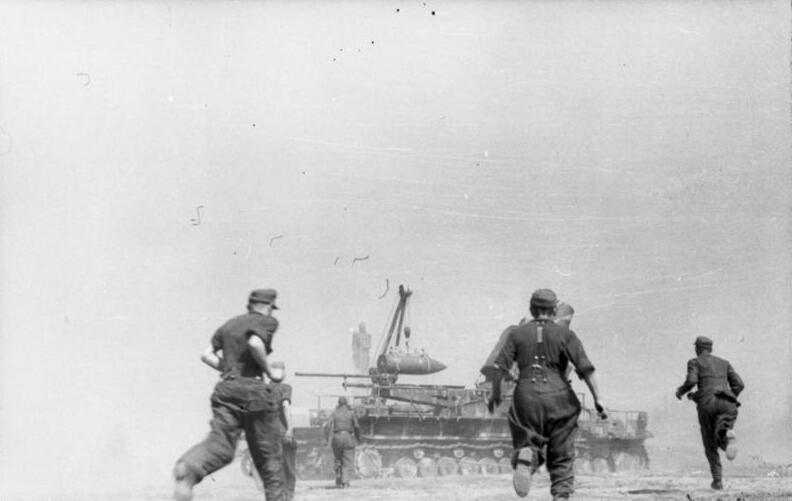 Warsaw Uprising: Soldiers of 638th battery of heavy artillery run towards "Ziu" German 600mm caliber mortar of type "Karl" used for bombing of Warsaw Old Town from Sowiński Park in Wola district. In the back a statue of general Sowiński.